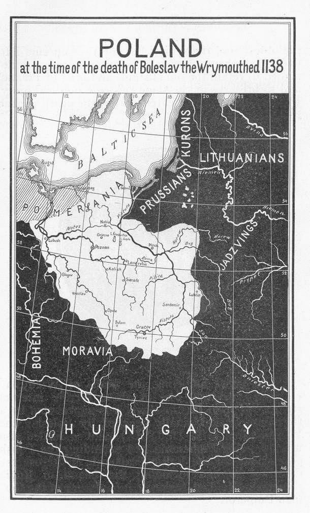 This is an illustration from Political History of Poland written by E.H. Lewinski-Corwin and published in 1917.